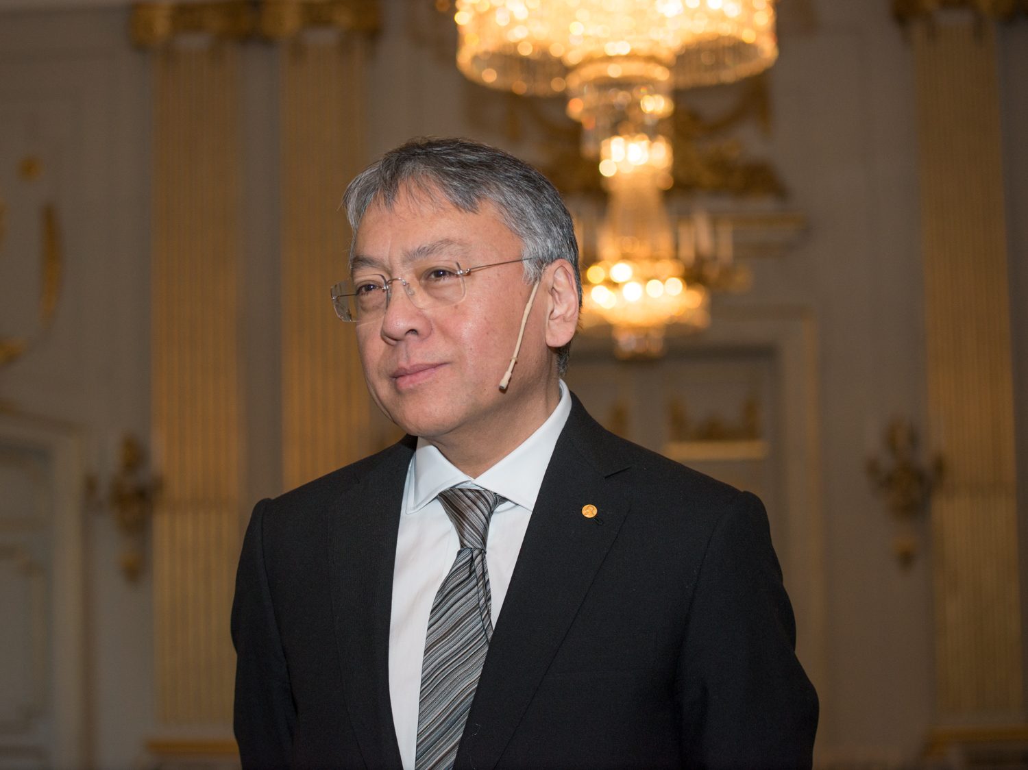 Kazuo Ishiguro in the Stockholm Stock Exchange during the Swedish Academy's press conference on December 6, 2017.